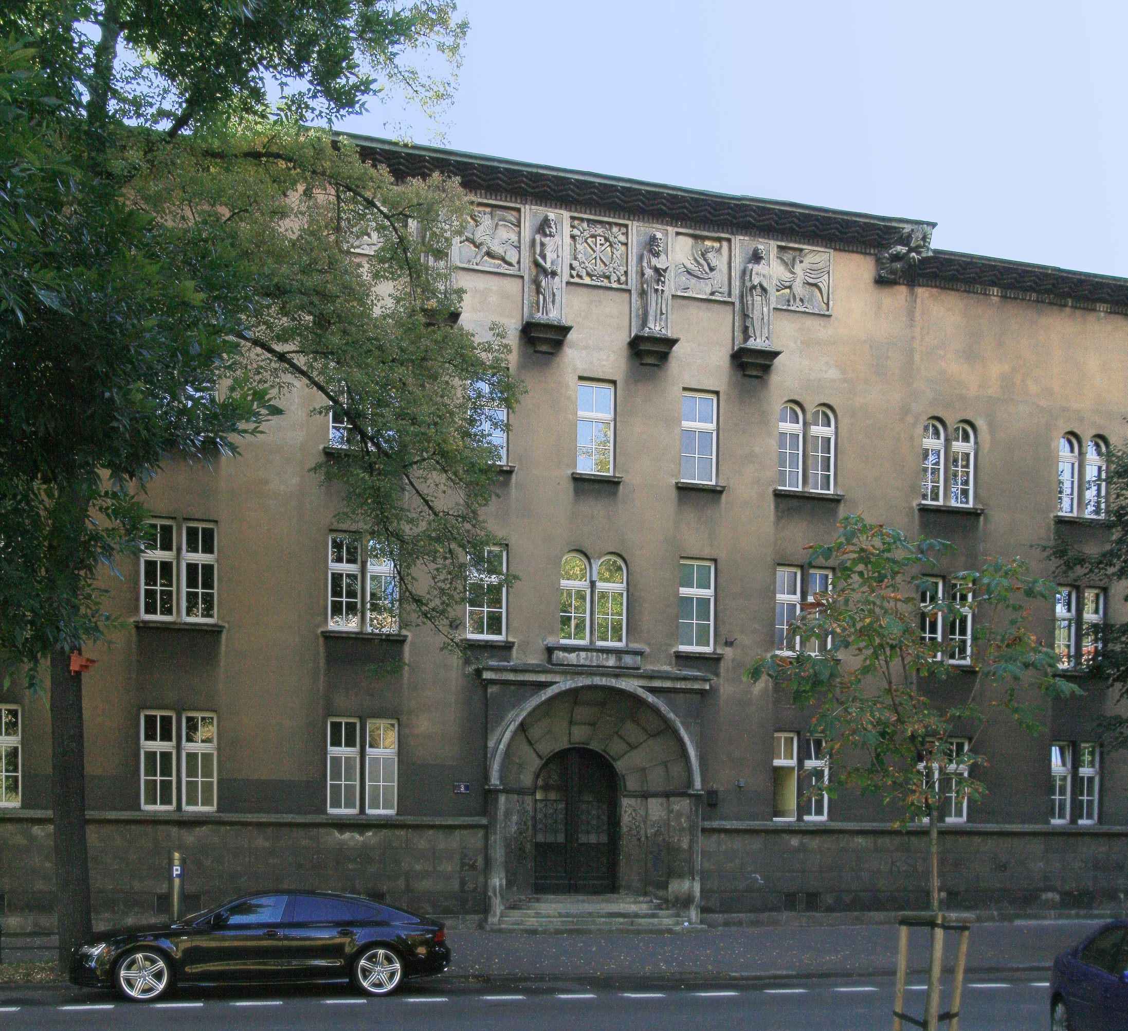 Chestonkhova seminary, Bernardyńska Street 3, Krakow